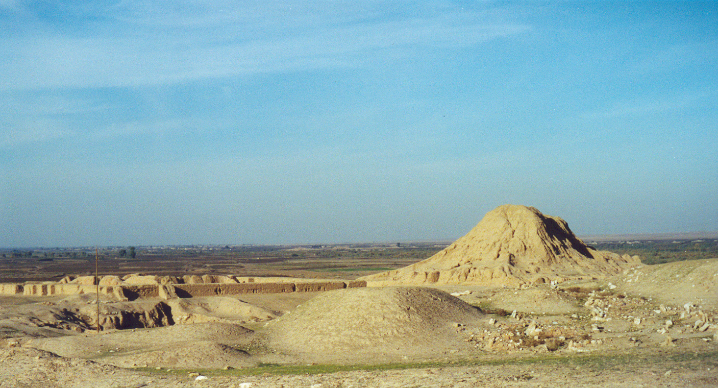 Ashur (Qal'at Sherqat) (Iraq)